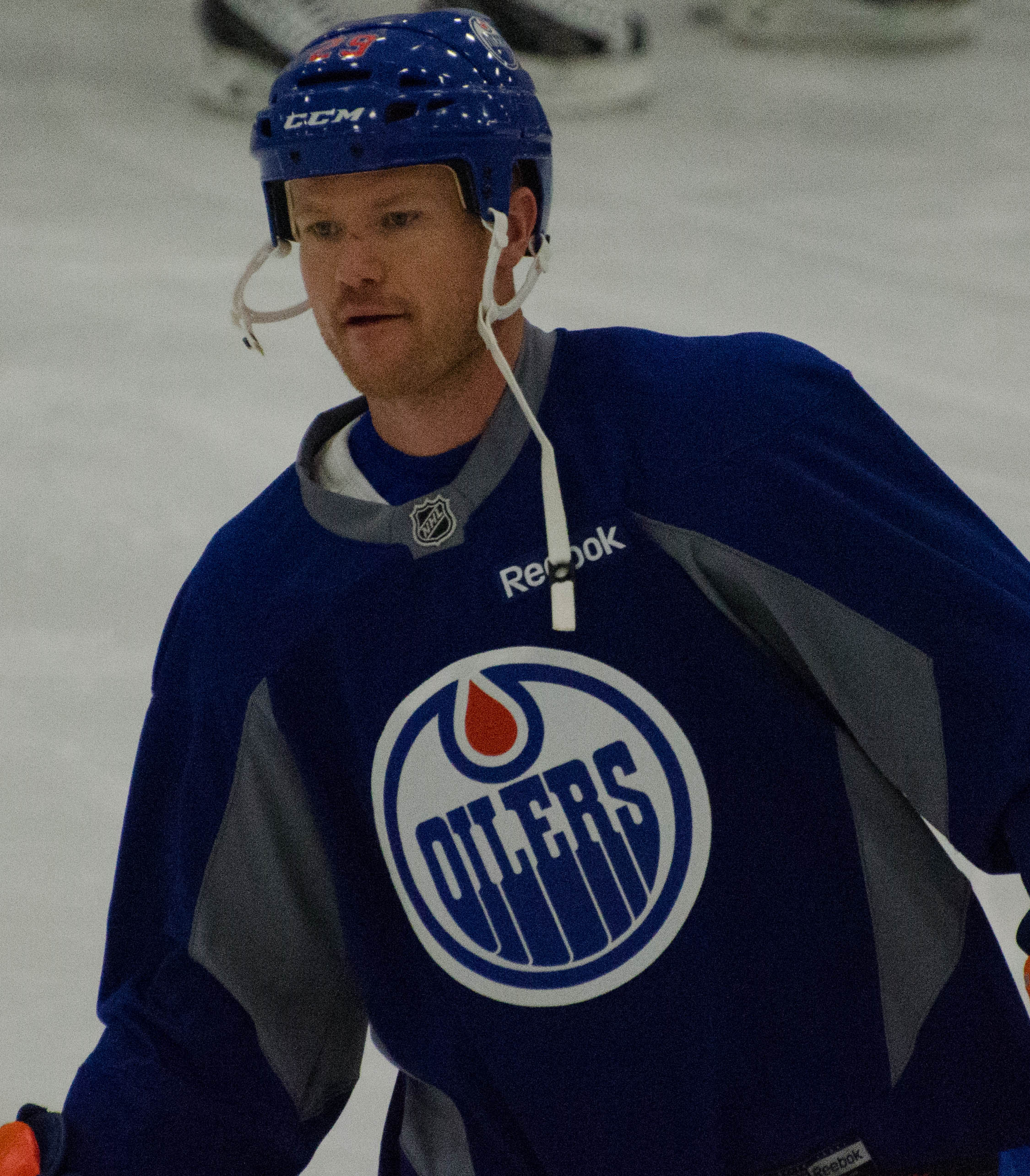 Jason Williams at an Edmonton Oilers practice, Sept. 27, 2014